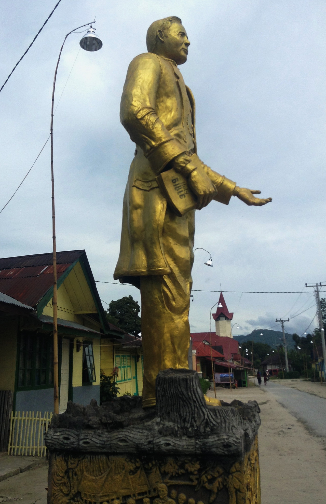 HKBP Dame Saitnihuta, Church in Saitnihuta, Tarutung, North Tapanuli.